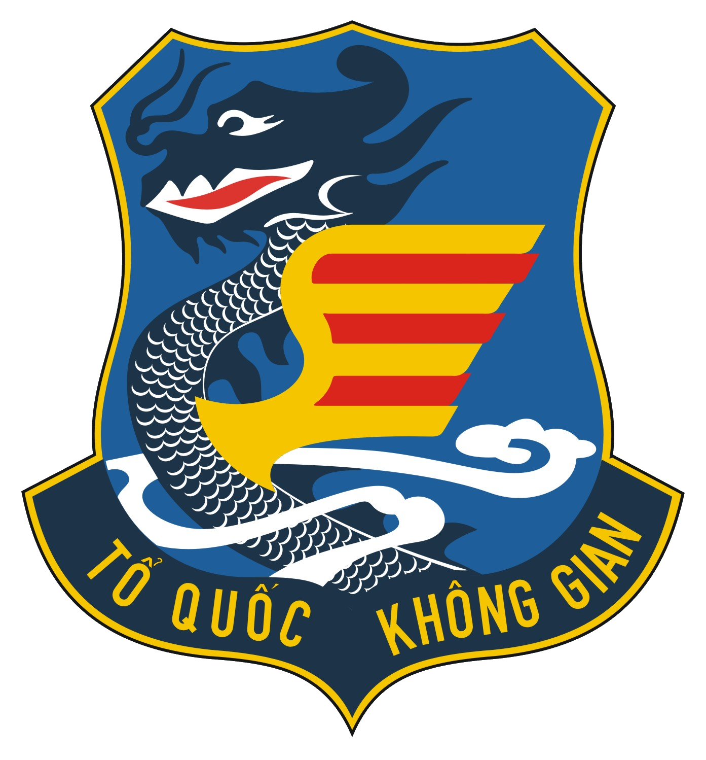 The emblem of Vietnam Air Force (VNAF), used since 1955 to 1975.